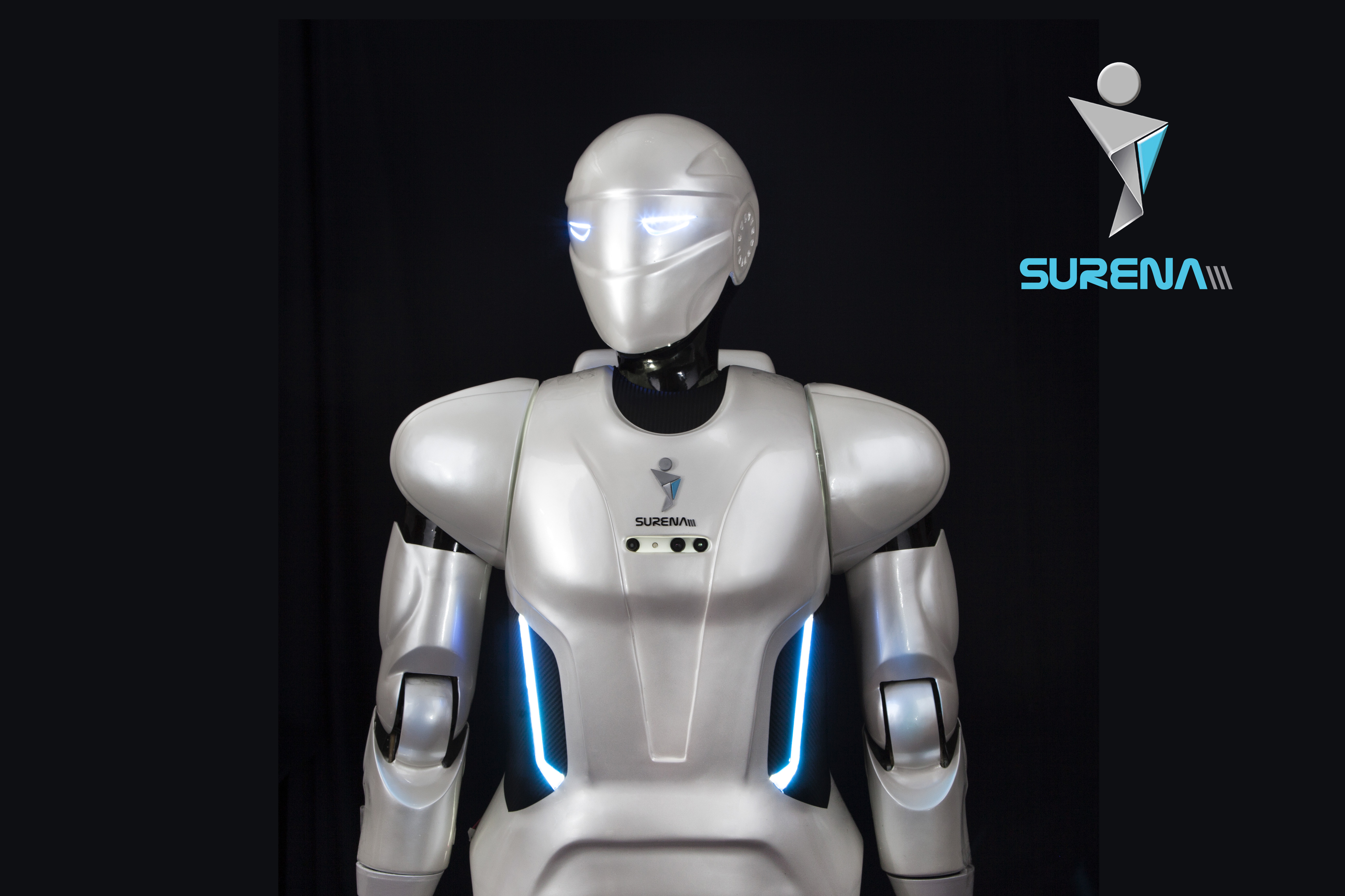 SURENA III, Third generation of Iranian humanoid robot